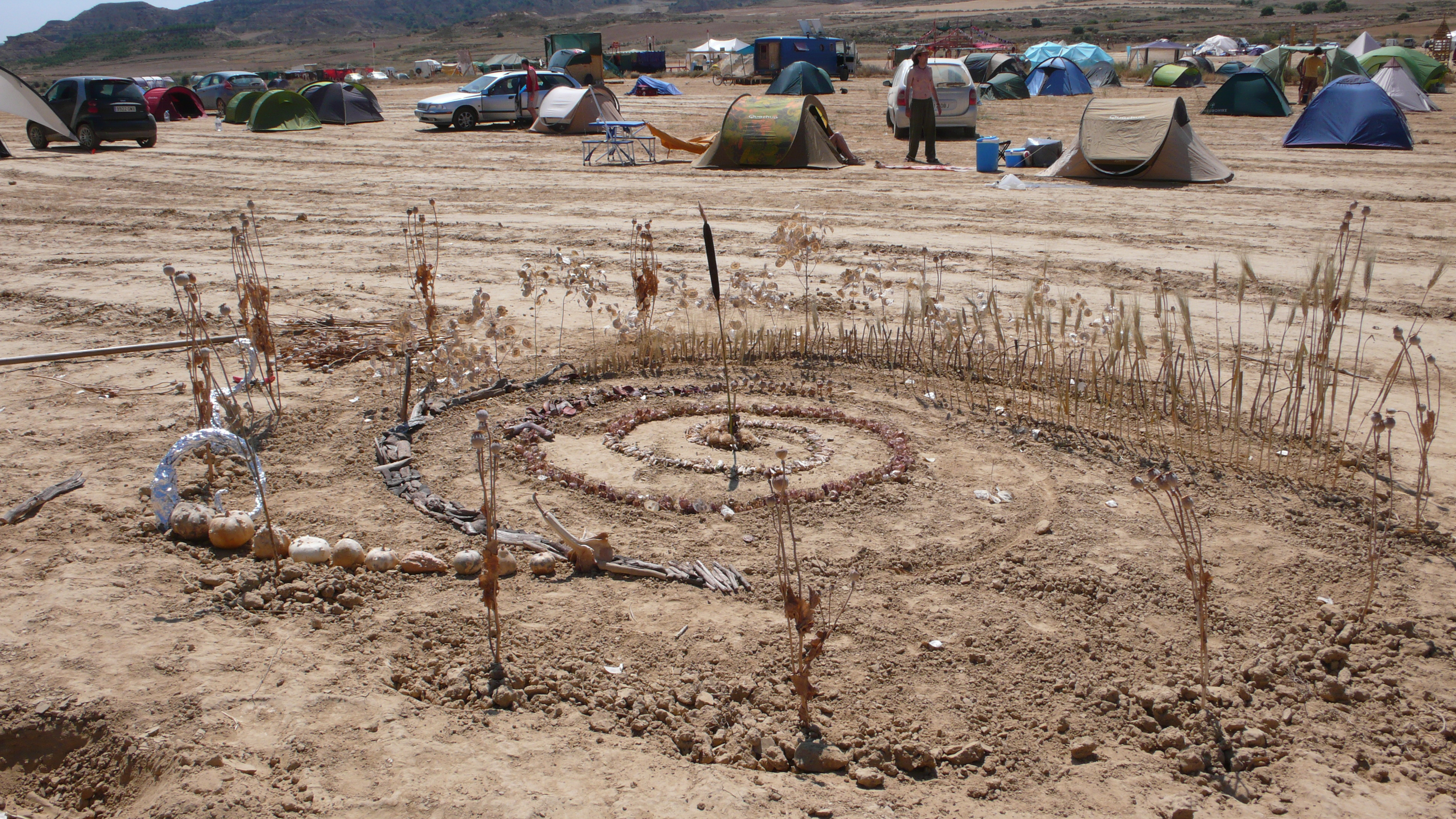 Euroburners Nowhere 09